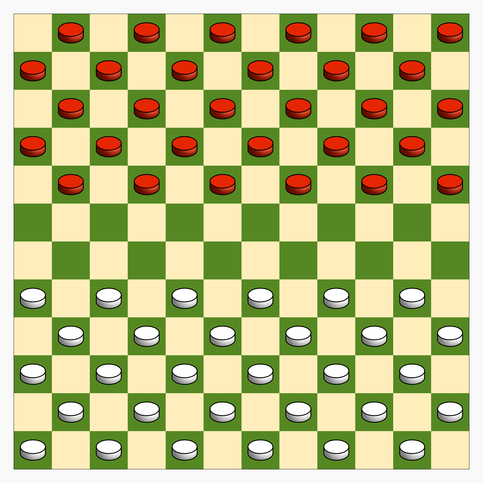 Canadian Checkers board & starting position. Using the checker icons of User:Stellmach (svg'd by User:Stannered); all done in MS PAINT.